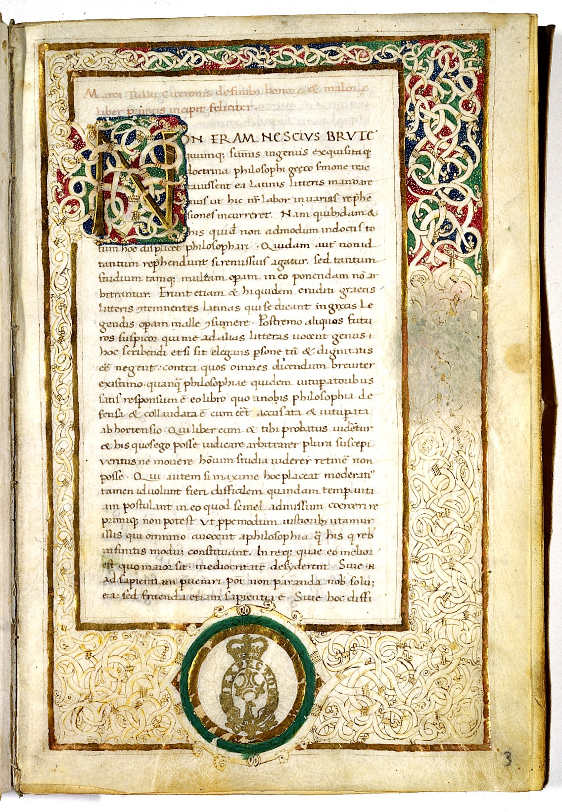 Folio from manuscript. Archives & Manuscripts Keywords: Marcus Tullius Cicero